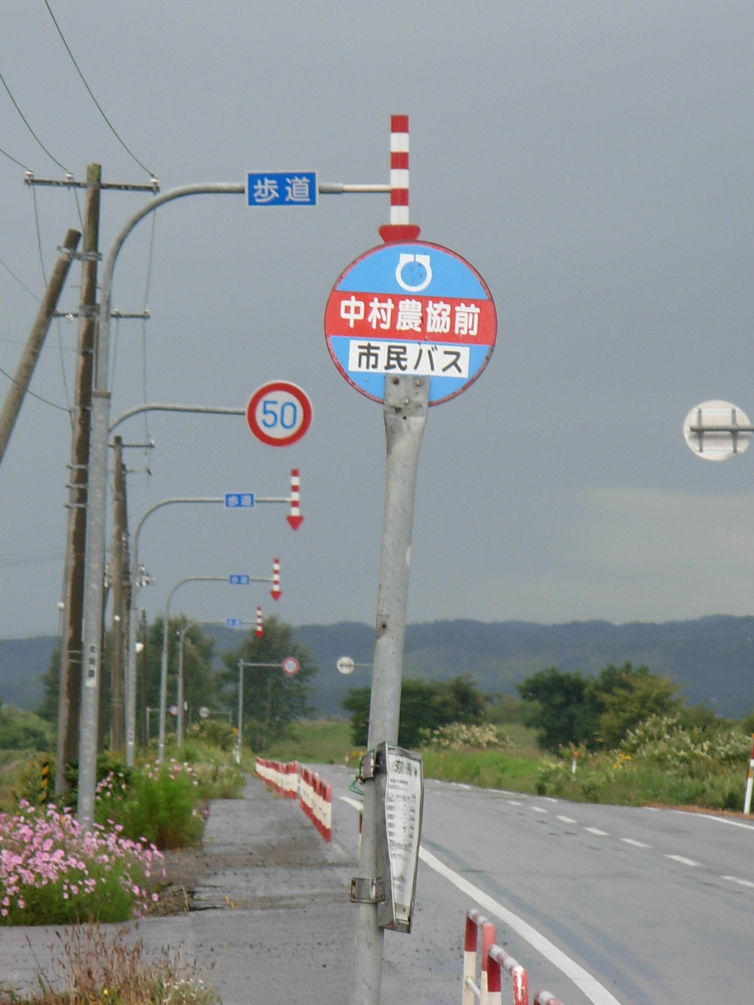 Bibai city bus "Nakamura Nokyo mae" bus stop (Bibai, Hokkaido)